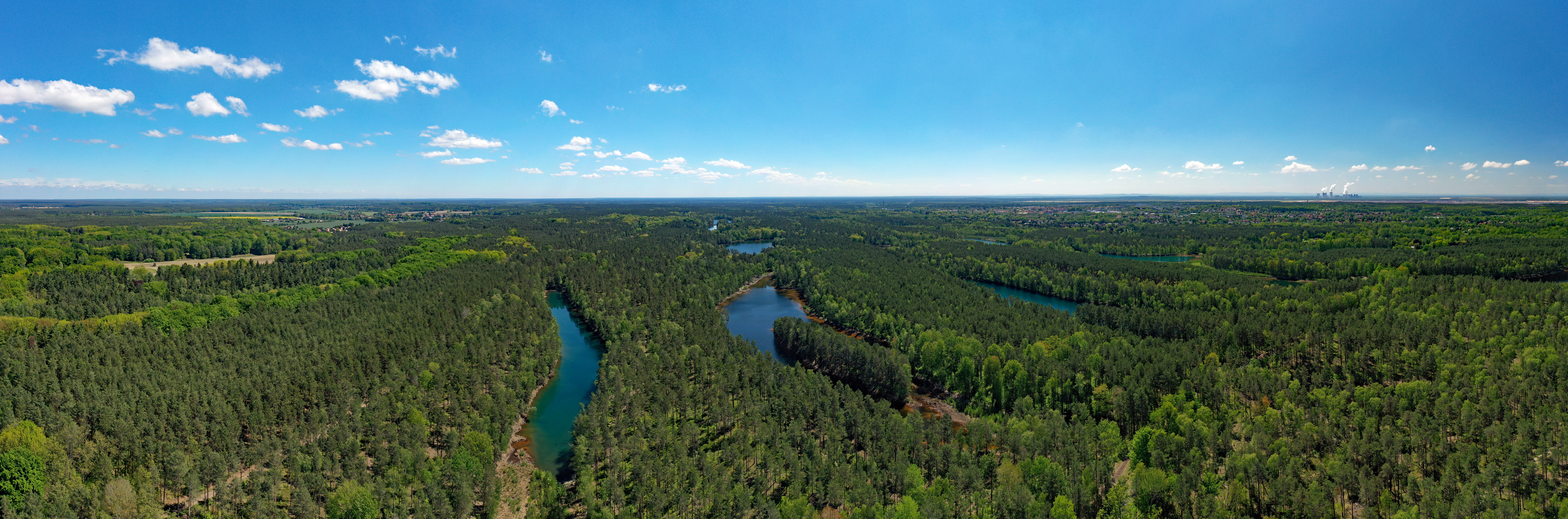 Kromlau and Muskauer Faltenbogen (Gablenz, Saxony, Germany)